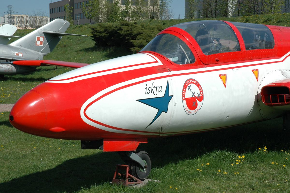 TS-11 Iskra, Polish jet trainer aircraft (Polish Aviation Museum, Cracow, Poland)